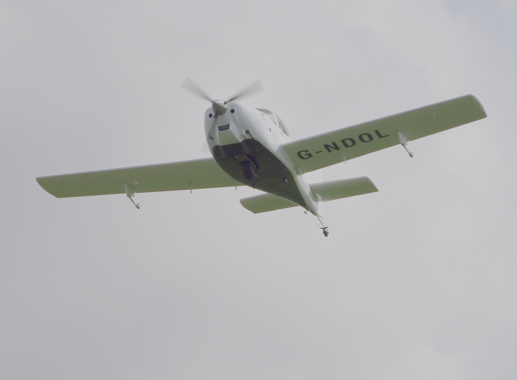 Europa G-NDOL, with Subaru engine and monowheel gear, takes off from Coal Aston airfield in North Derbyshire